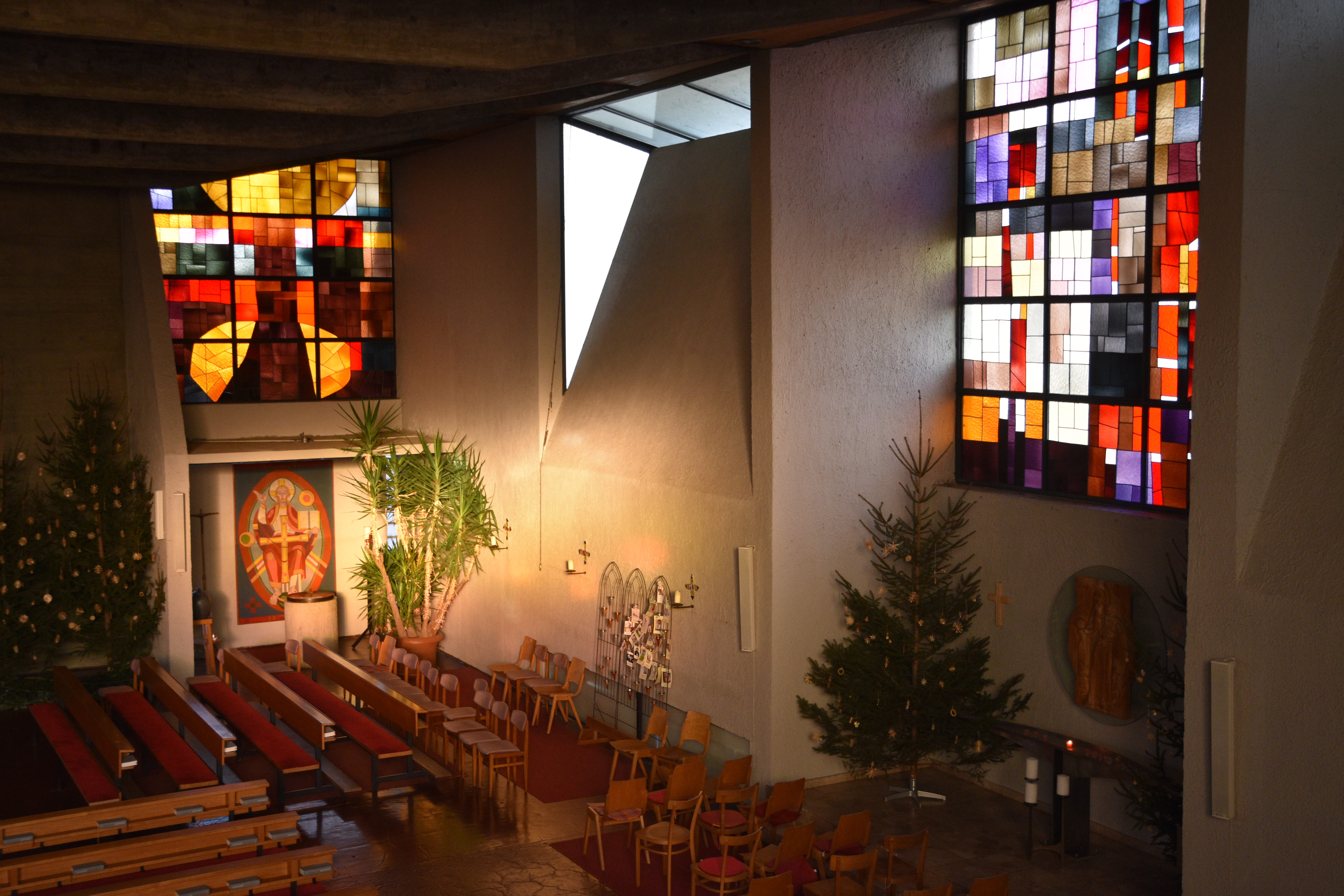 Church Kath. Pfarrkirche Christus der Auferstandene Wagna Interior